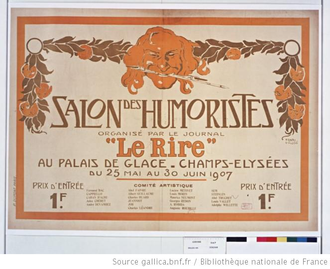 French Poster for the Salon des Humoristes (1907), by Henri Goussé (1872-19014).